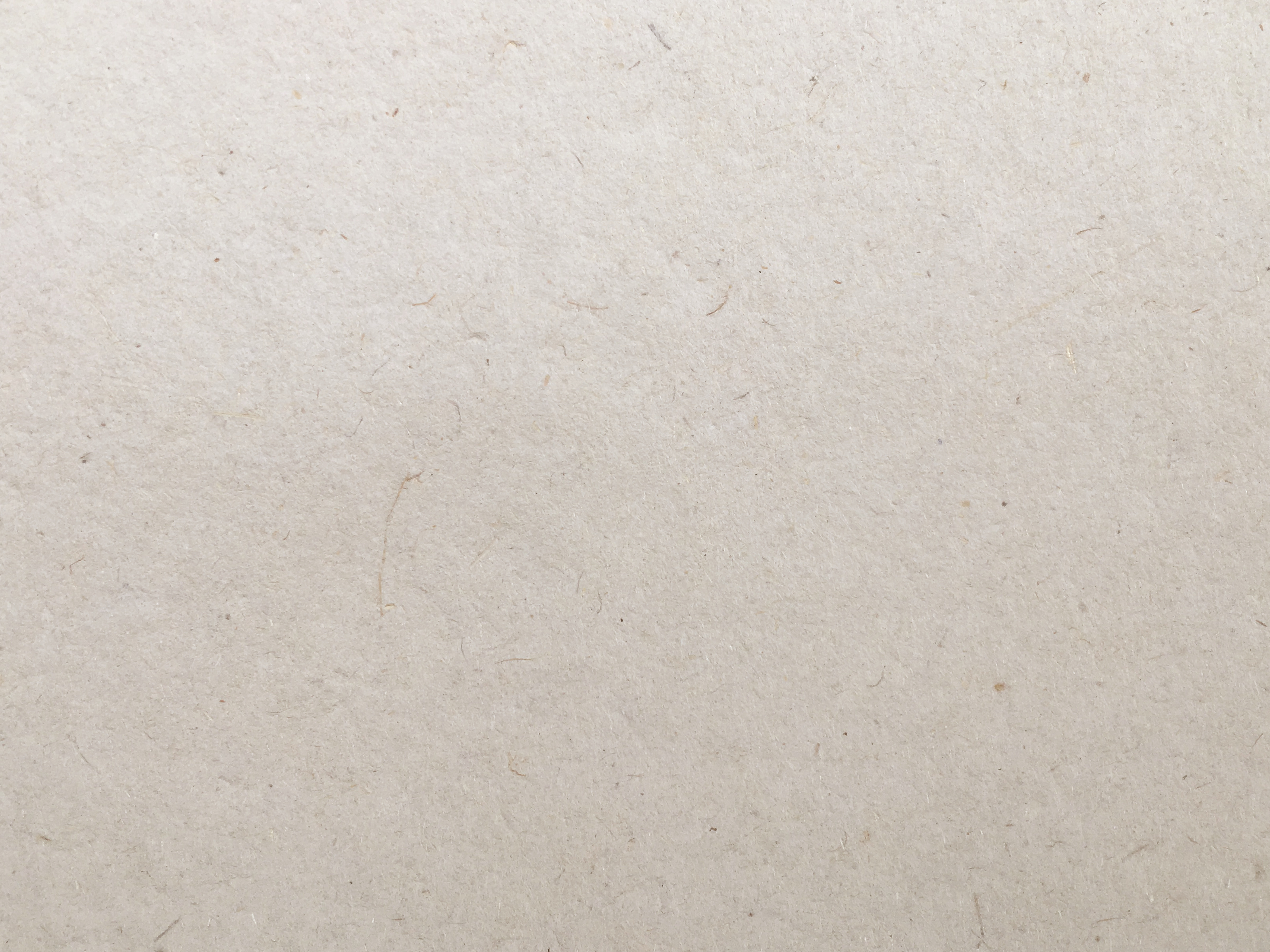 Hemp paper. Traditional papermaking technology in Japan.